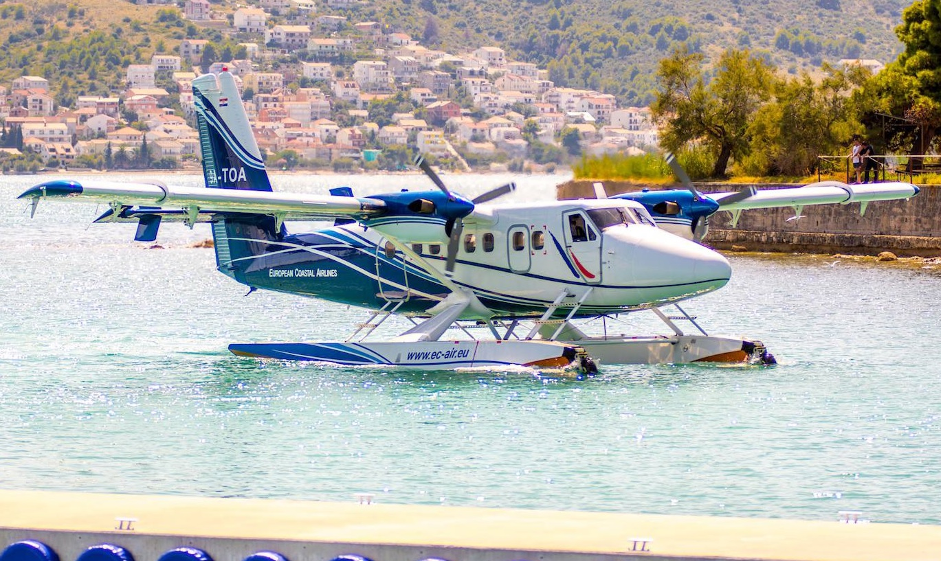 European Coastal Airlines' de Havilland Canada DHC-6 Twin Otter registered 9A-TOA taxiing to Split Airport water terminal